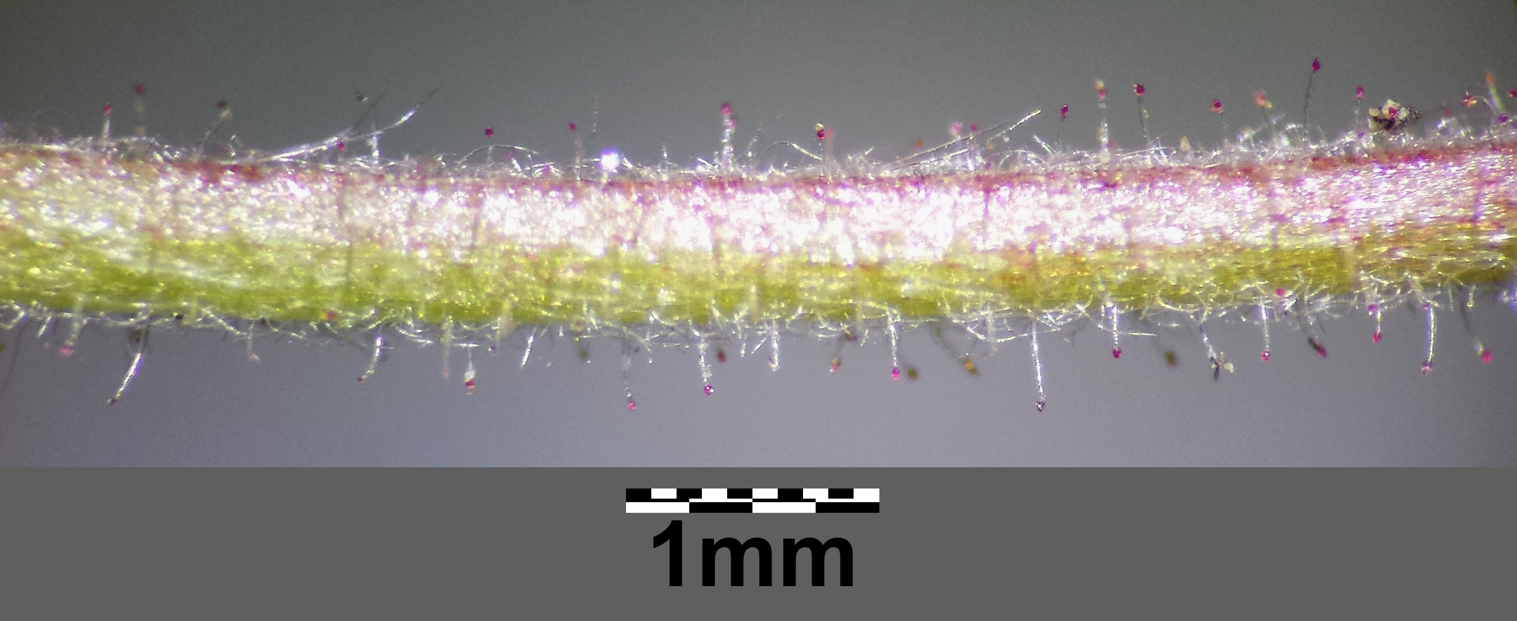 Pedicel Taxonym: Potentilla incana ss Fischer et al. EfÖLS 2008 ISBN 978-3-85474-187-9 Location: Loess hill to the west of Großebersdorf, district Mistelbach, Lower Austria - ca. 200 m a.s.l. Habitat: semi-dry grassland